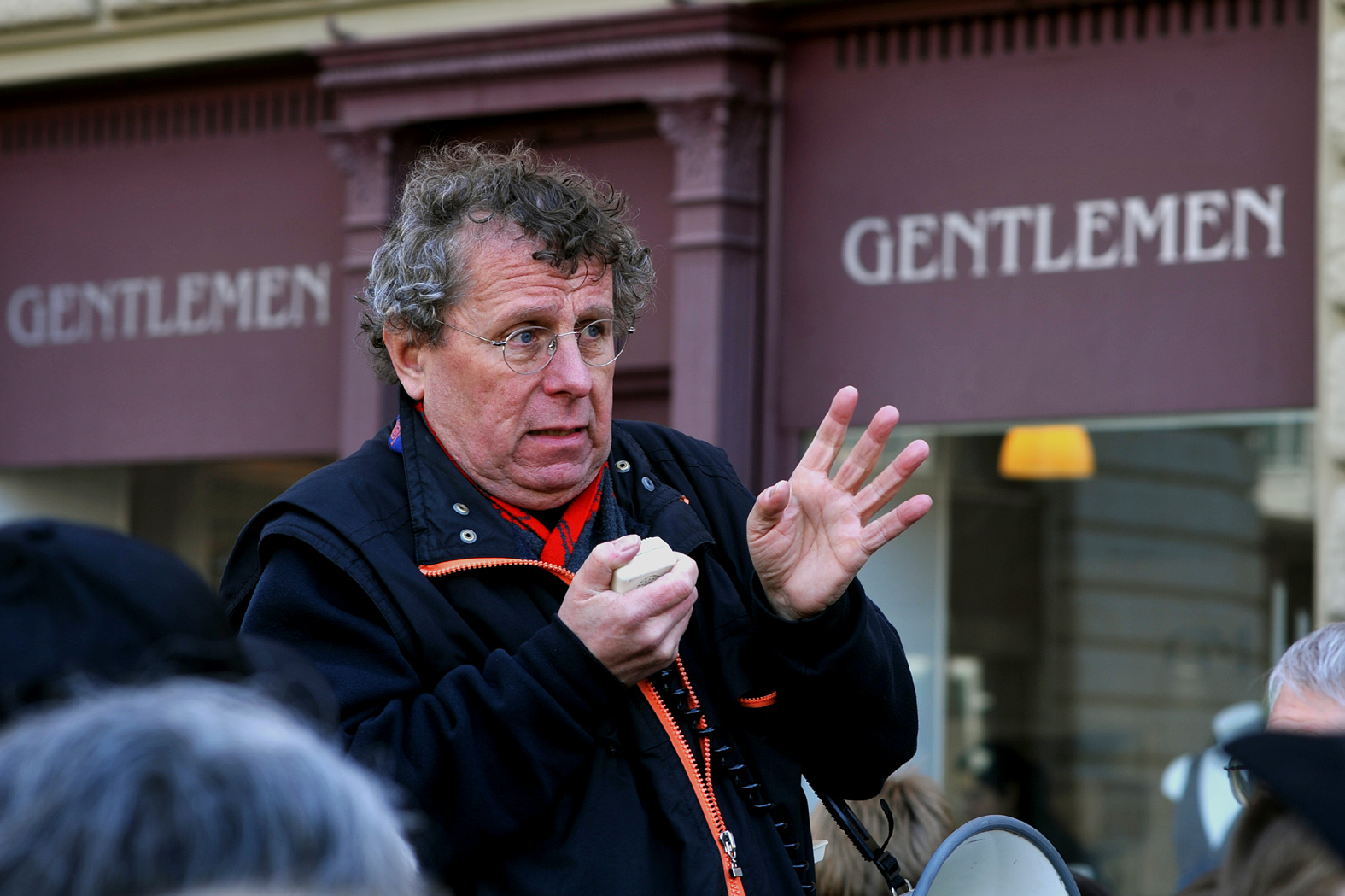 The architect Benedikt Loderer on the occasion of a Stadtwanderung (City hike) in Biel; Berne, Switzerland.